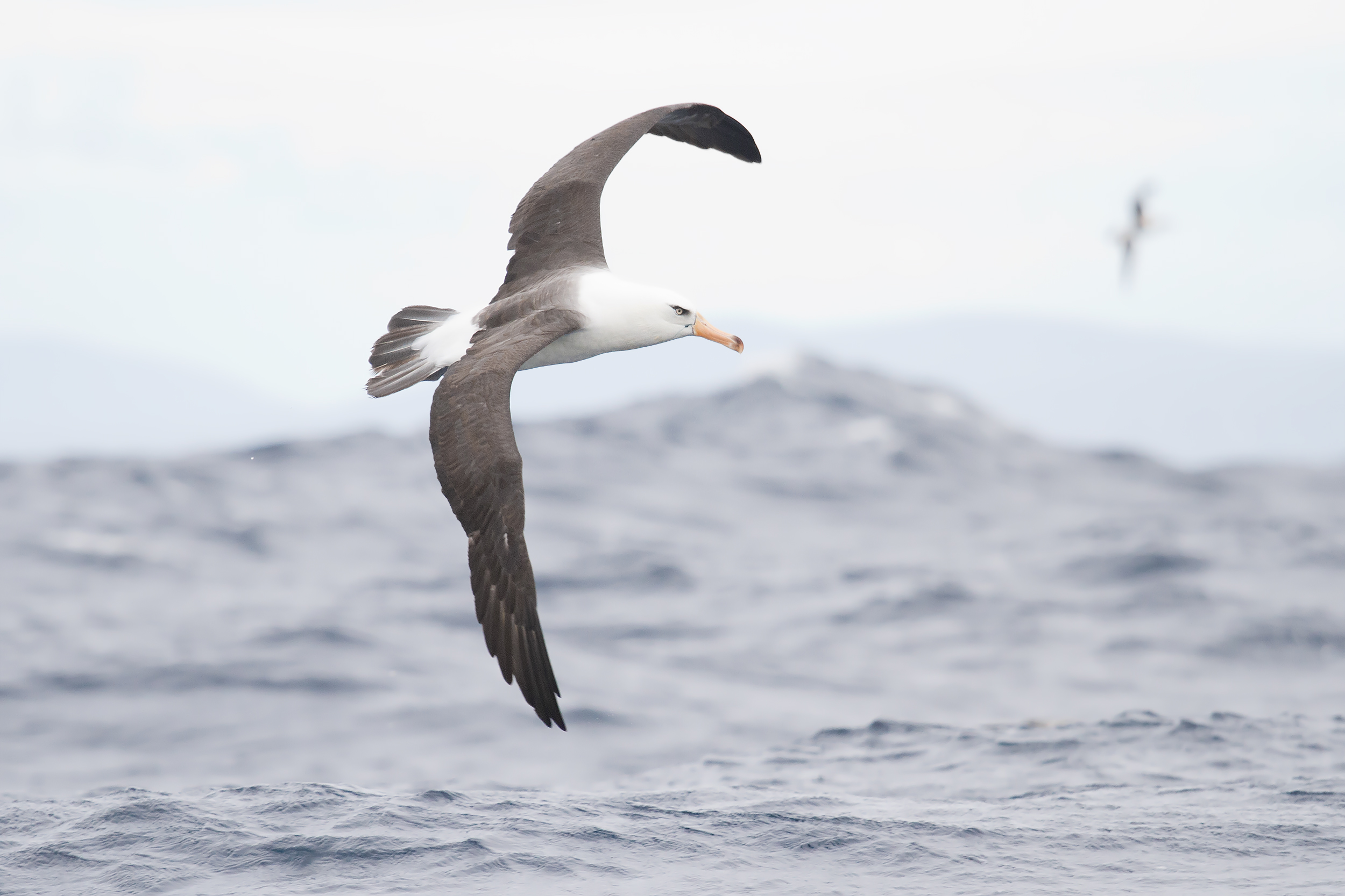 Juvenile Campbell Albatross (Thalassarche impavida), East of the Tasman Peninsula, Tasmania, Australia